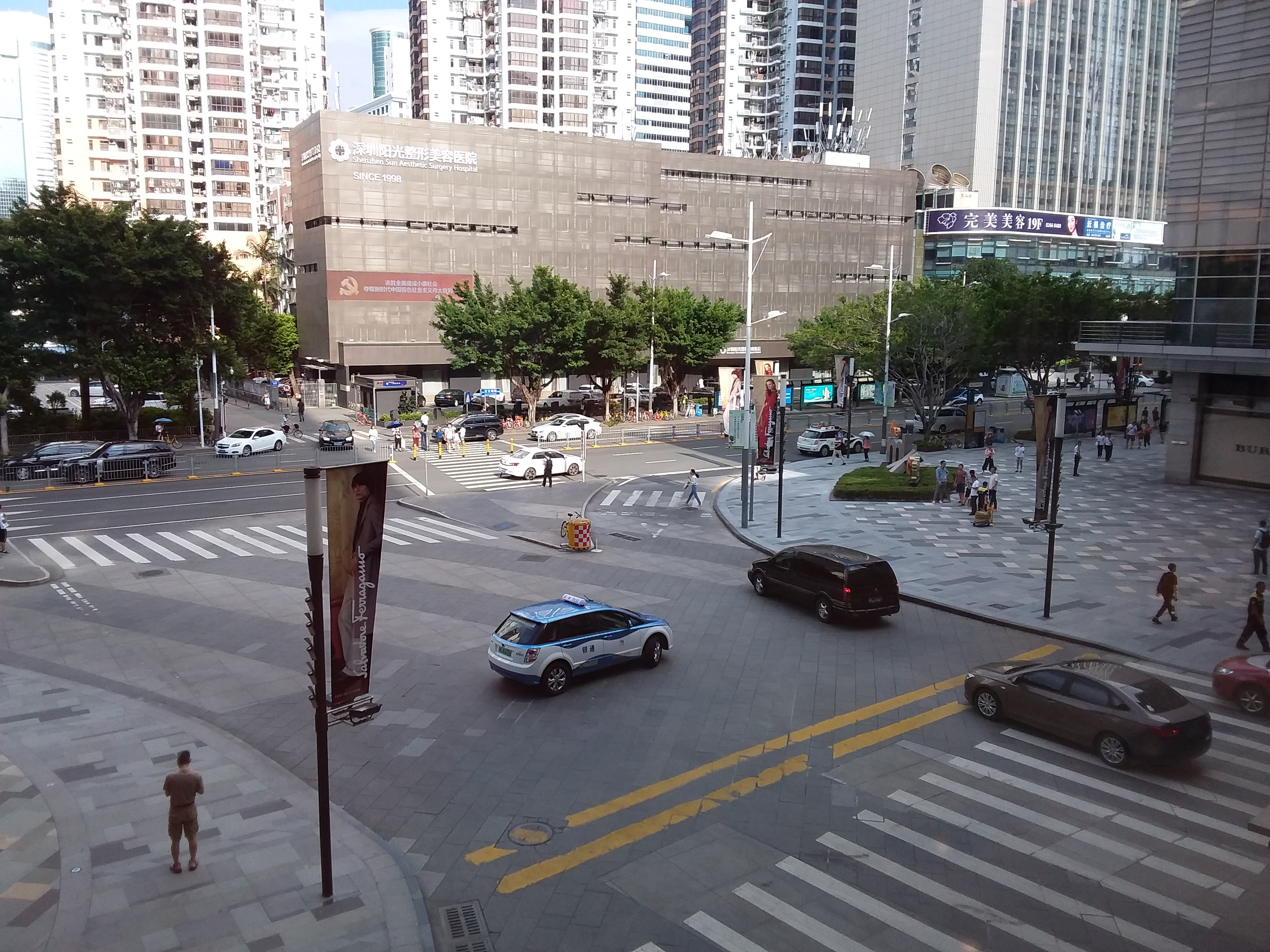 SZ 深圳 Shenzhen 羅湖區 Luohu 華潤萬象城 MixC mall interior in August 2018